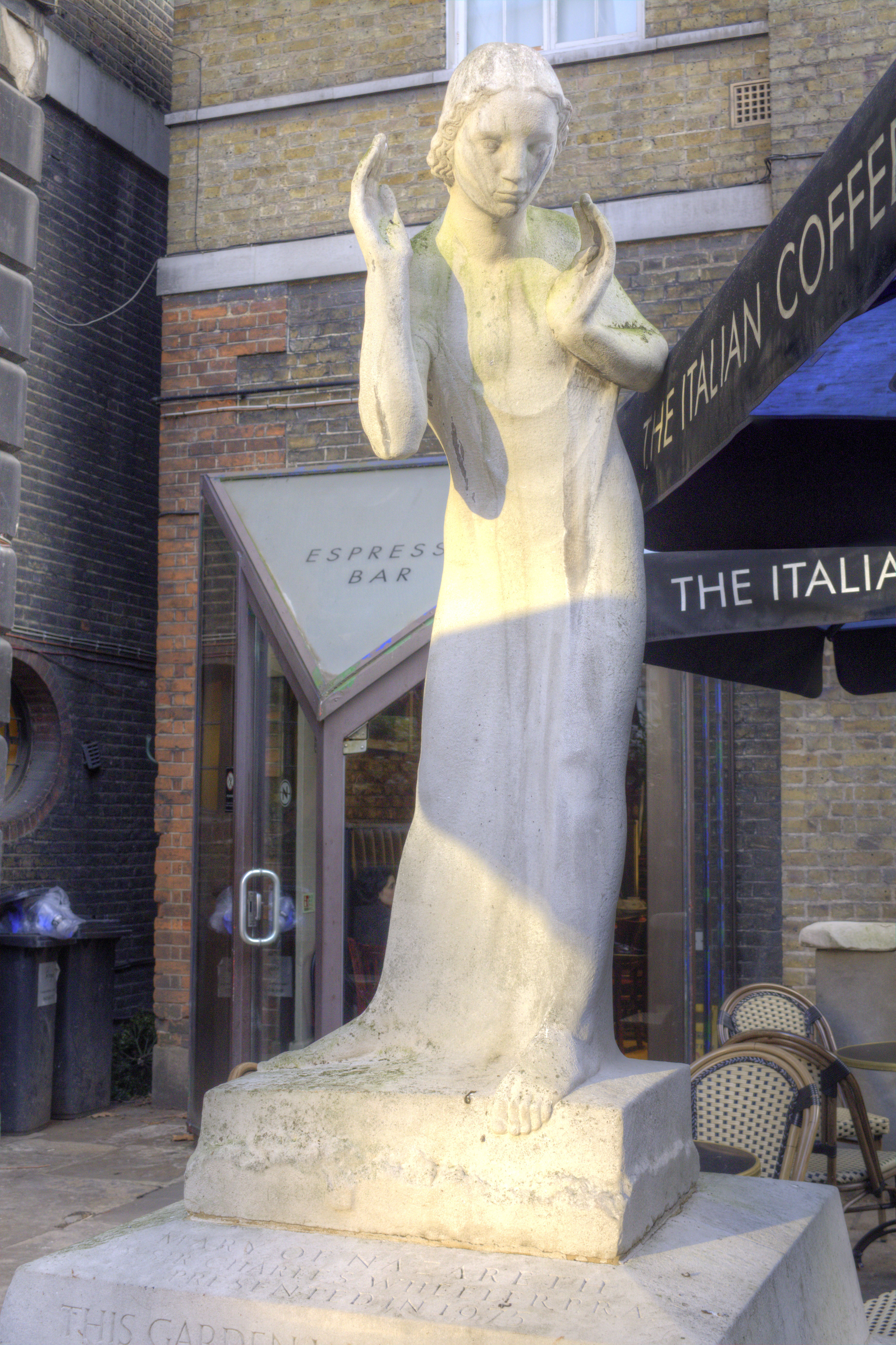 Statue of Mary of Nazareth, St James's Church, Piccadilly